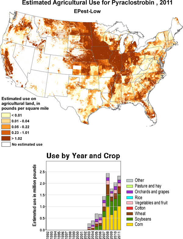 Pyraclostrobin map of use, USA, 2011 (estimated)